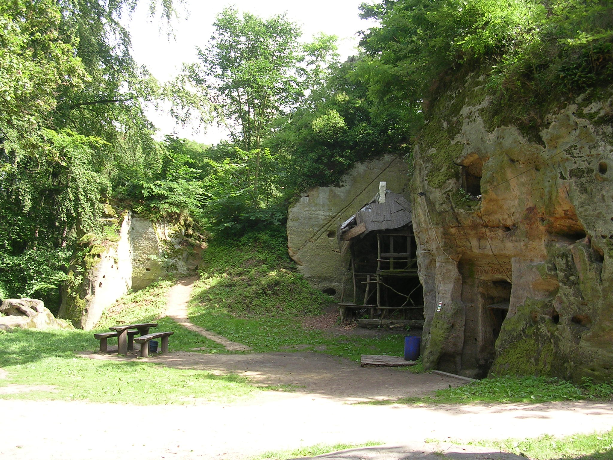 Boseň, Mladá Boleslav District, Central Bohemian Region, the Czech Republic. Valečov Sandstone Rooms.